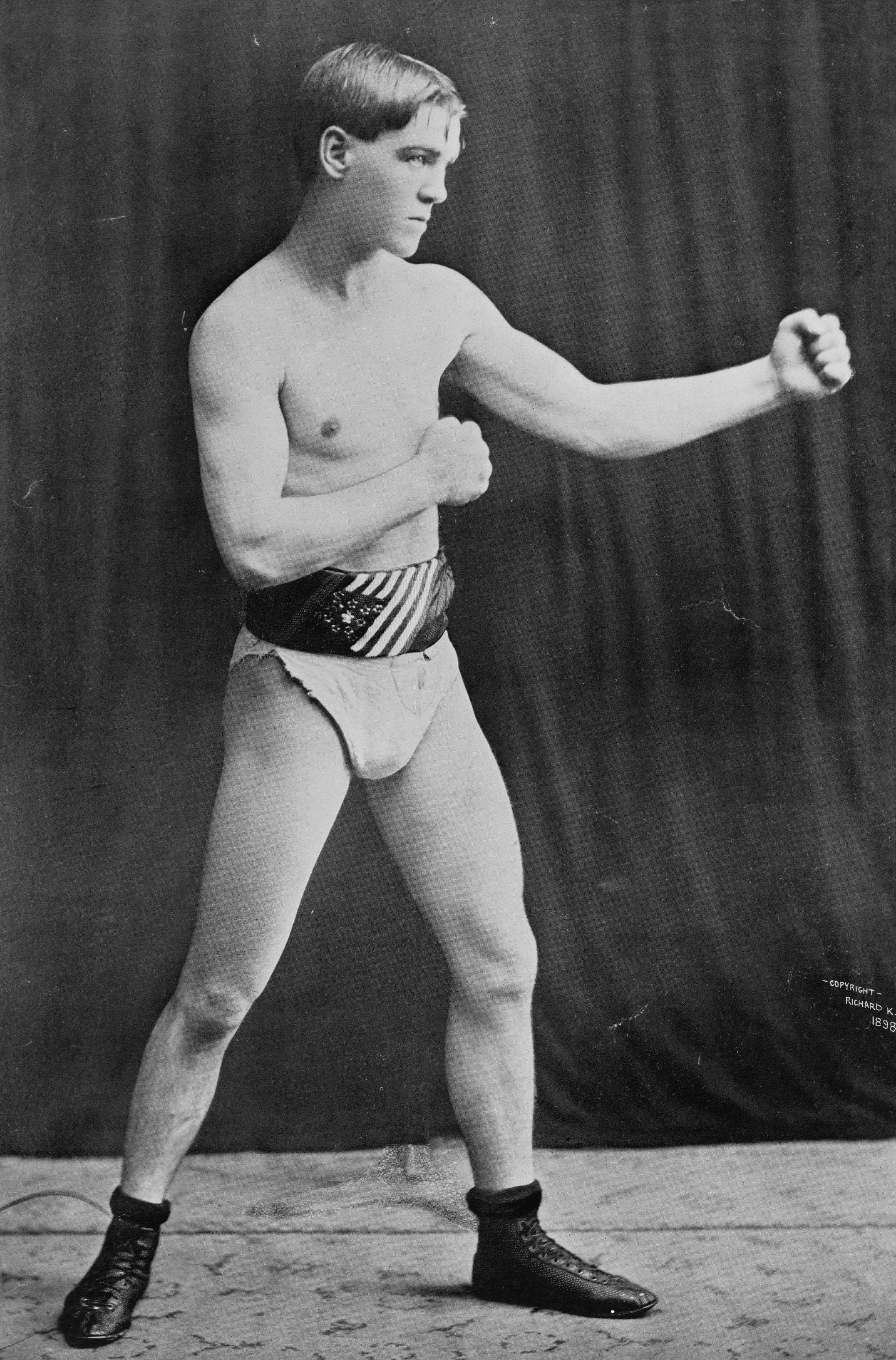 Terry McGovern (1880 - 1918), a boxer who held the world bantamweight and featherweight titles